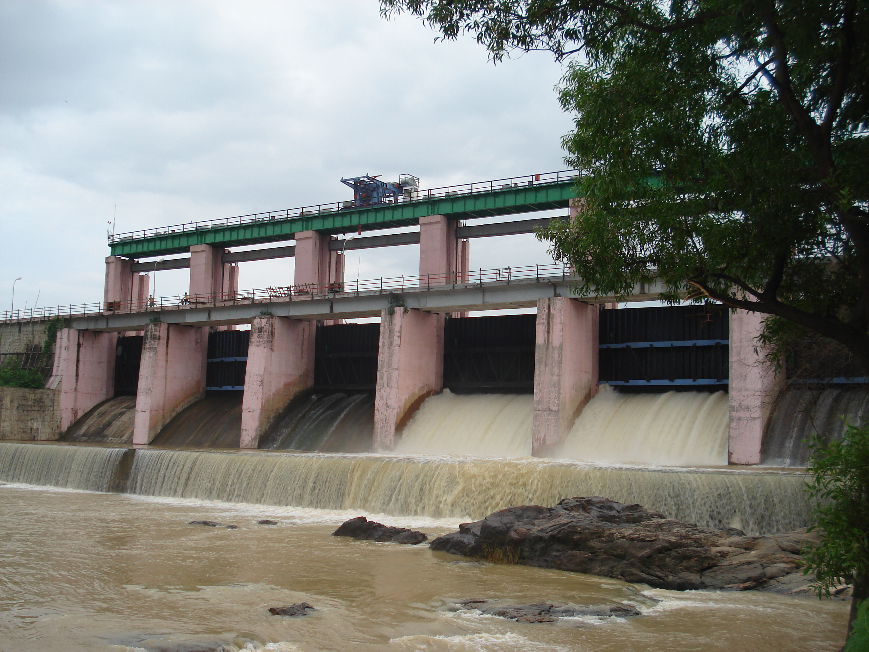 Garga Dam, Bokaro Steel City